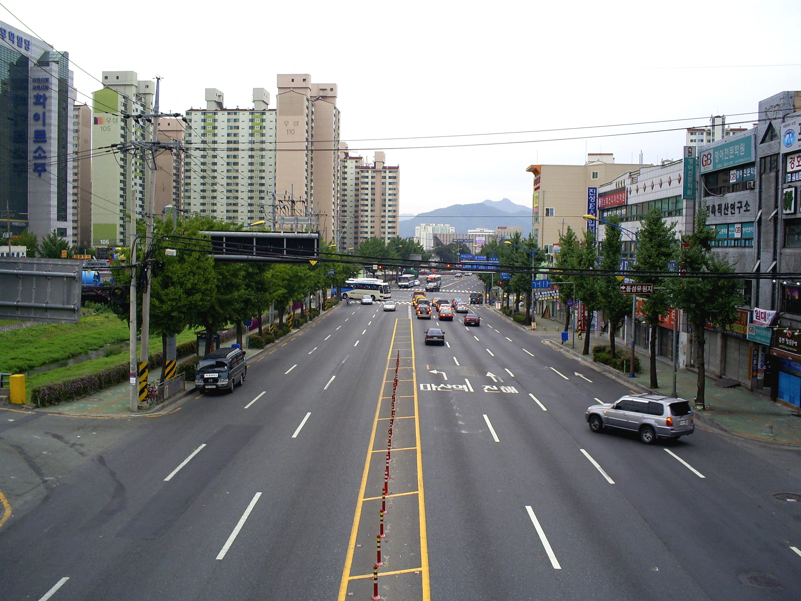 Samho-ro in Masan (now a part of Changwon), Gyeongsangnam-do, South Korea.